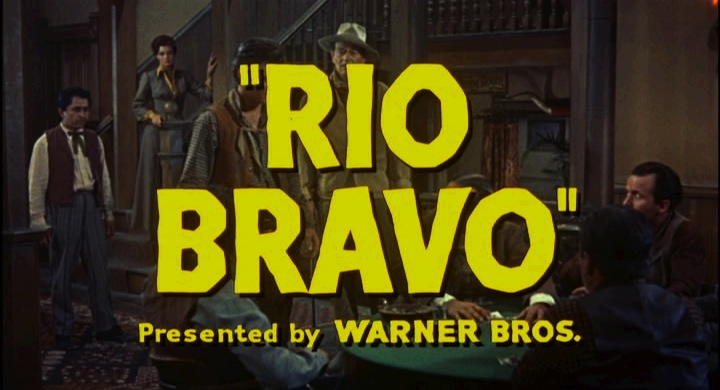 Cropped screenshot from the trailer for the film Rio Bravo